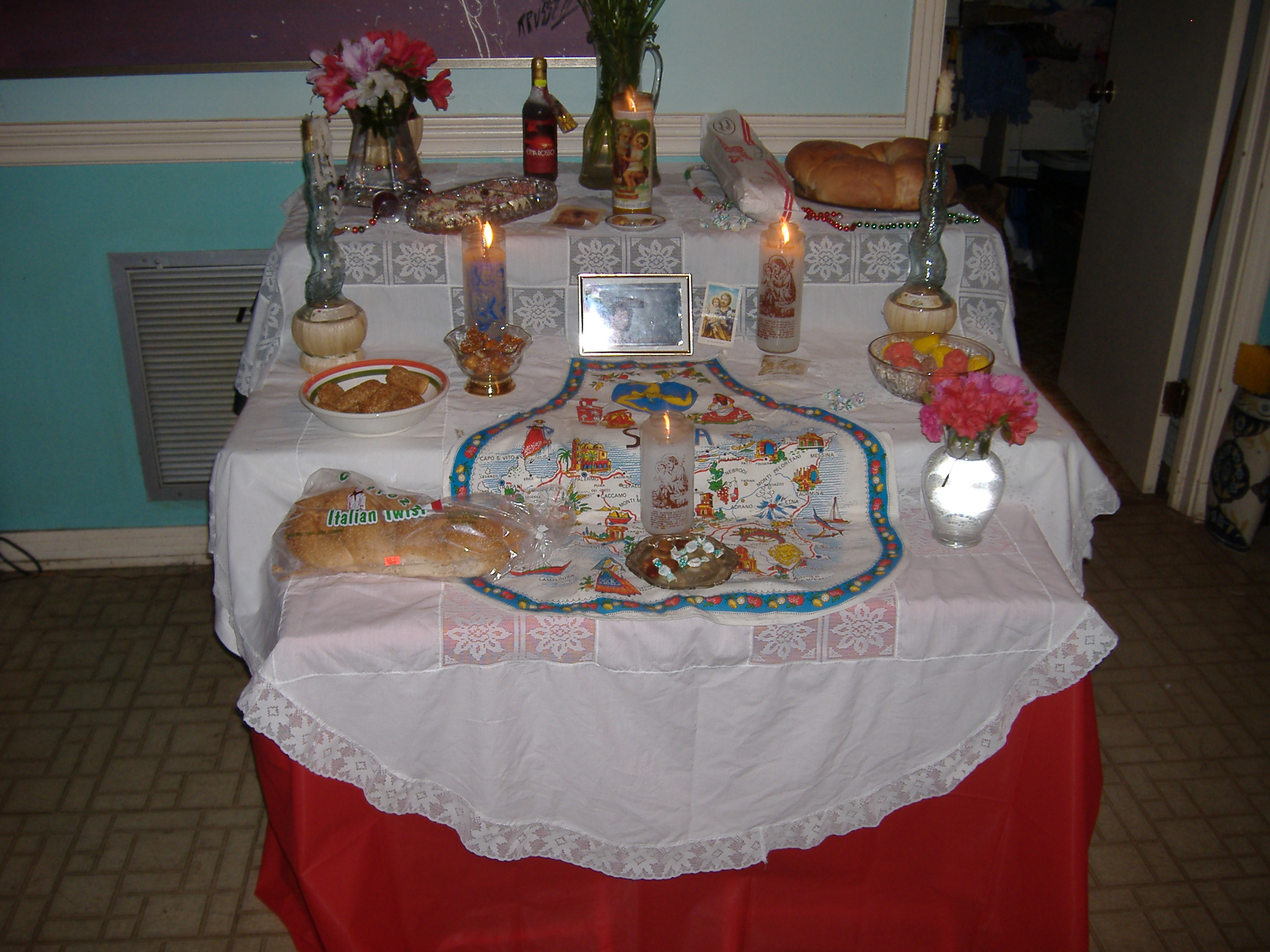 An altar for Saint Joseph's Day at a private residence in Harahan, Louisiana, a suburb of New Orleans